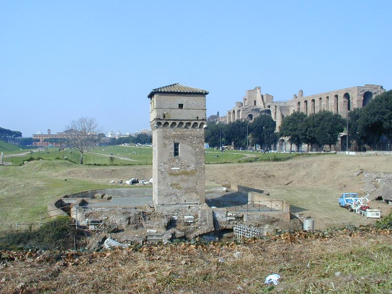 Rome, Circus Maximus: medieval tower called "Moletta" (Ripa)